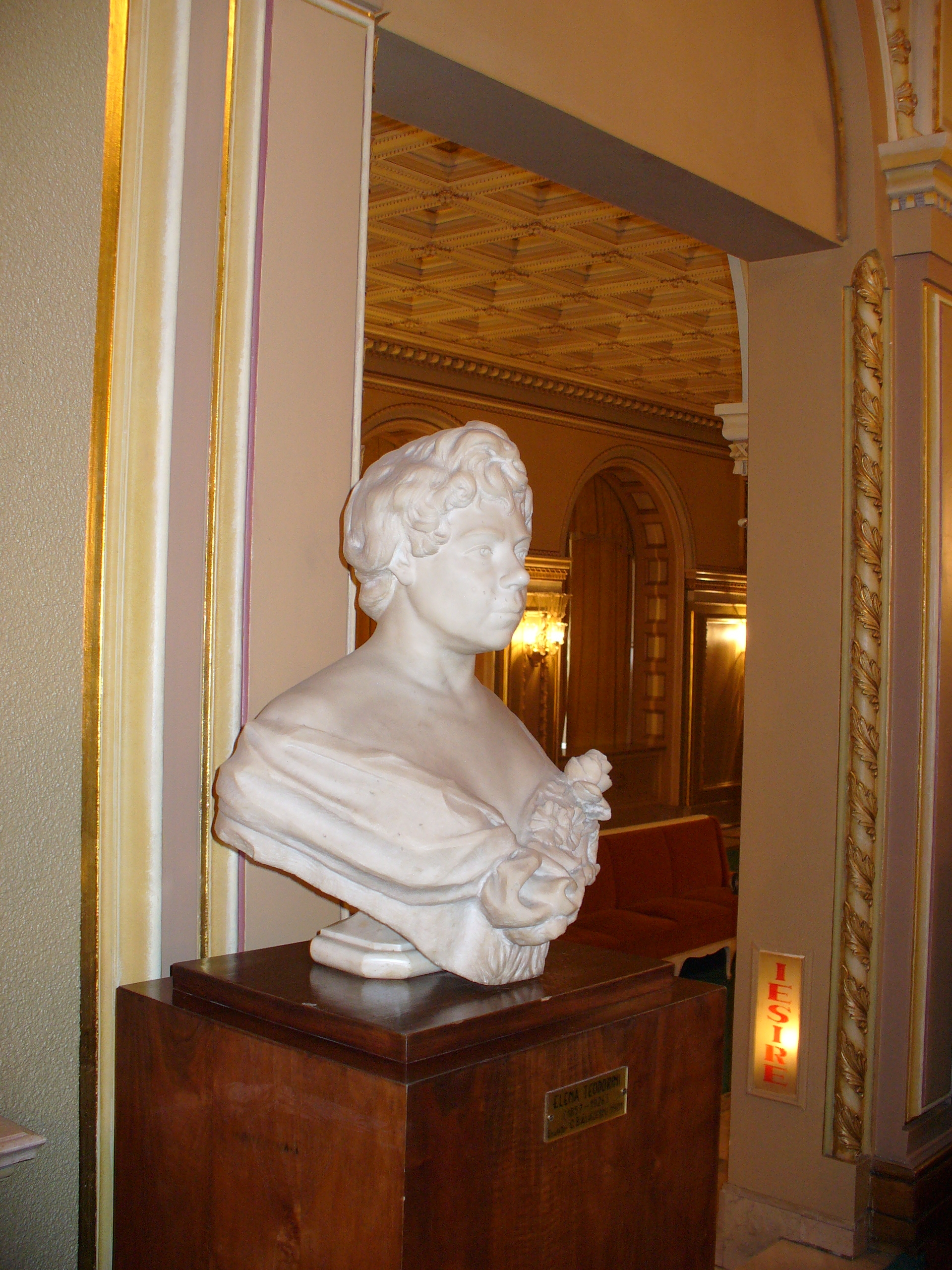 Bustul in marmura al Elenei Teodorini, de la Opera Nationala din Bucuresti, executat de catre sculptorul Craiovean Constantin Balacescu in anul 1901.